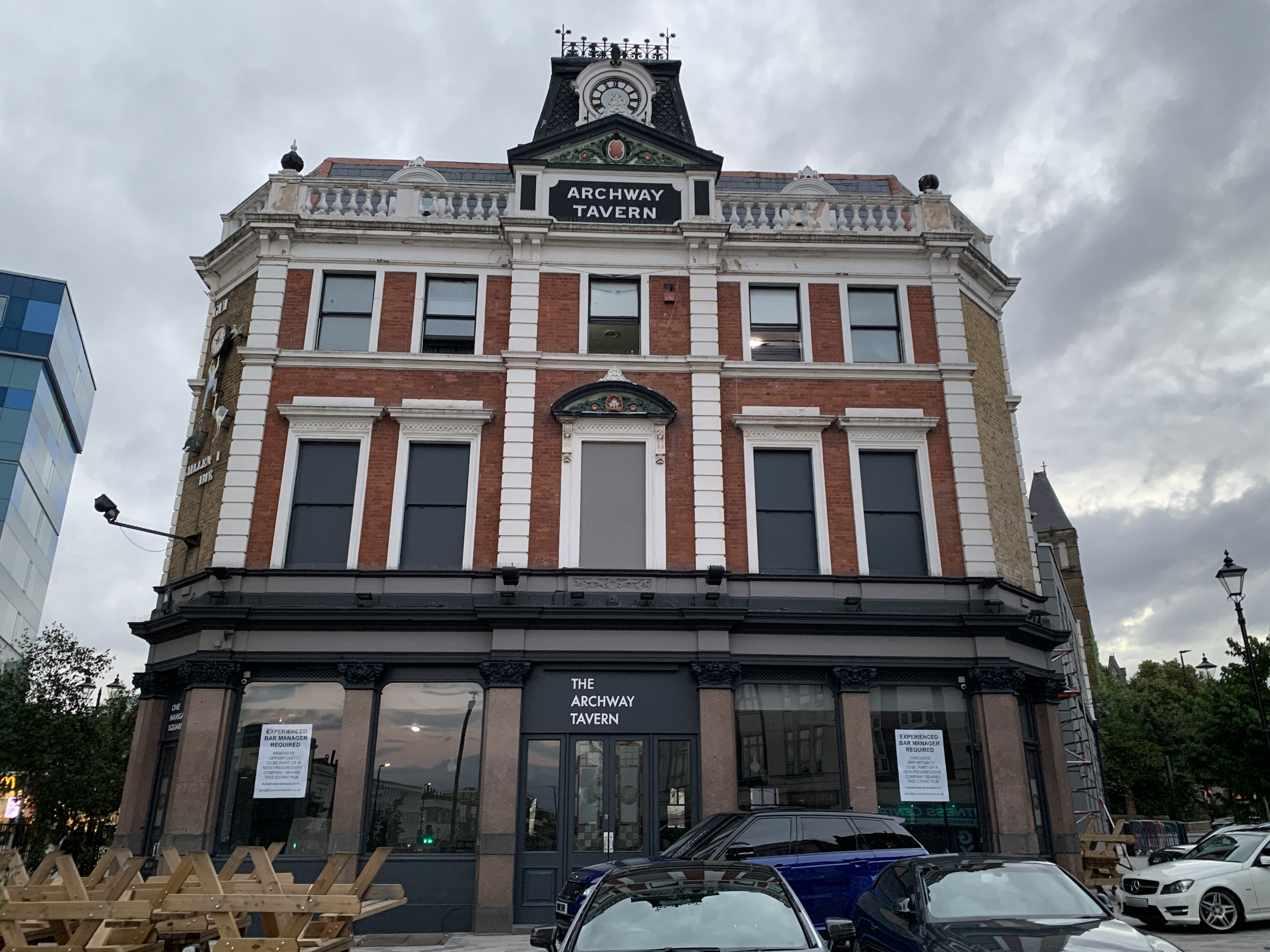 The Archway Tavern, viewed from Archway Close